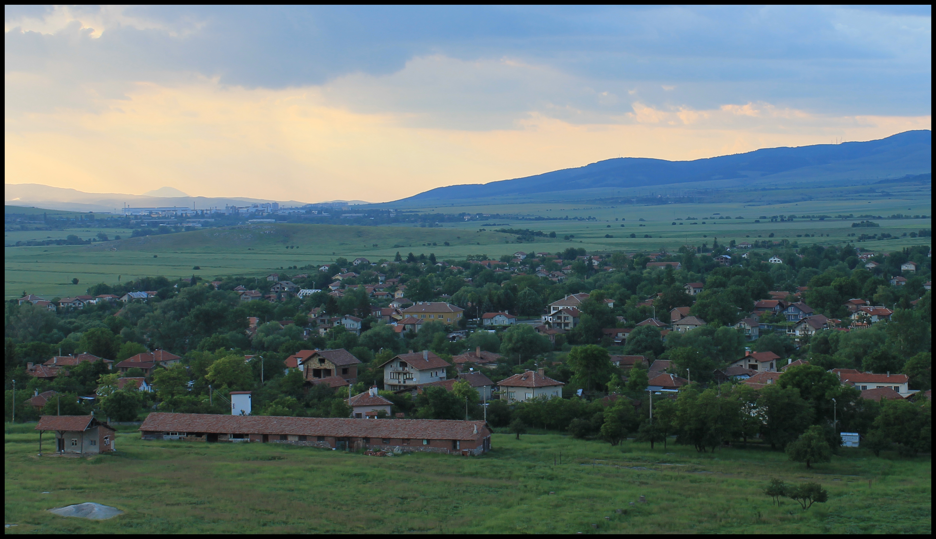 Stefanovo